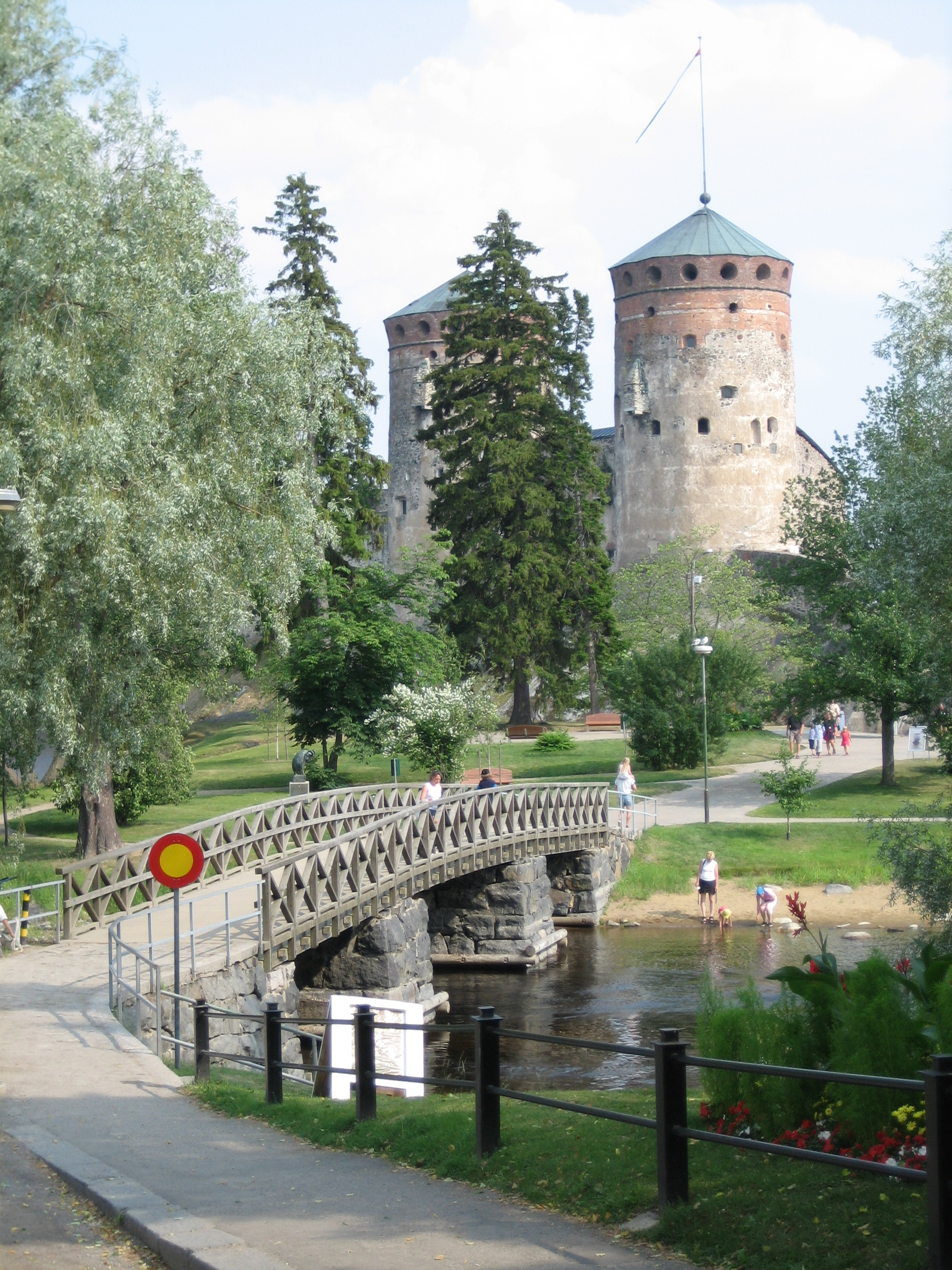 Olavinlinna (literally St. Olof's Castle in English) is a 15th century castle located in Savonlinna, Finland. The castle is the heart of the Savonlinna Opera Festival. Since the castle works as an opera house, it gives a spectacular environment for music and theatre. The castle was founded in 1475 when Finland was the Swedish frontier against the Russia. The castle is located on an island in a strong current between two lakes.